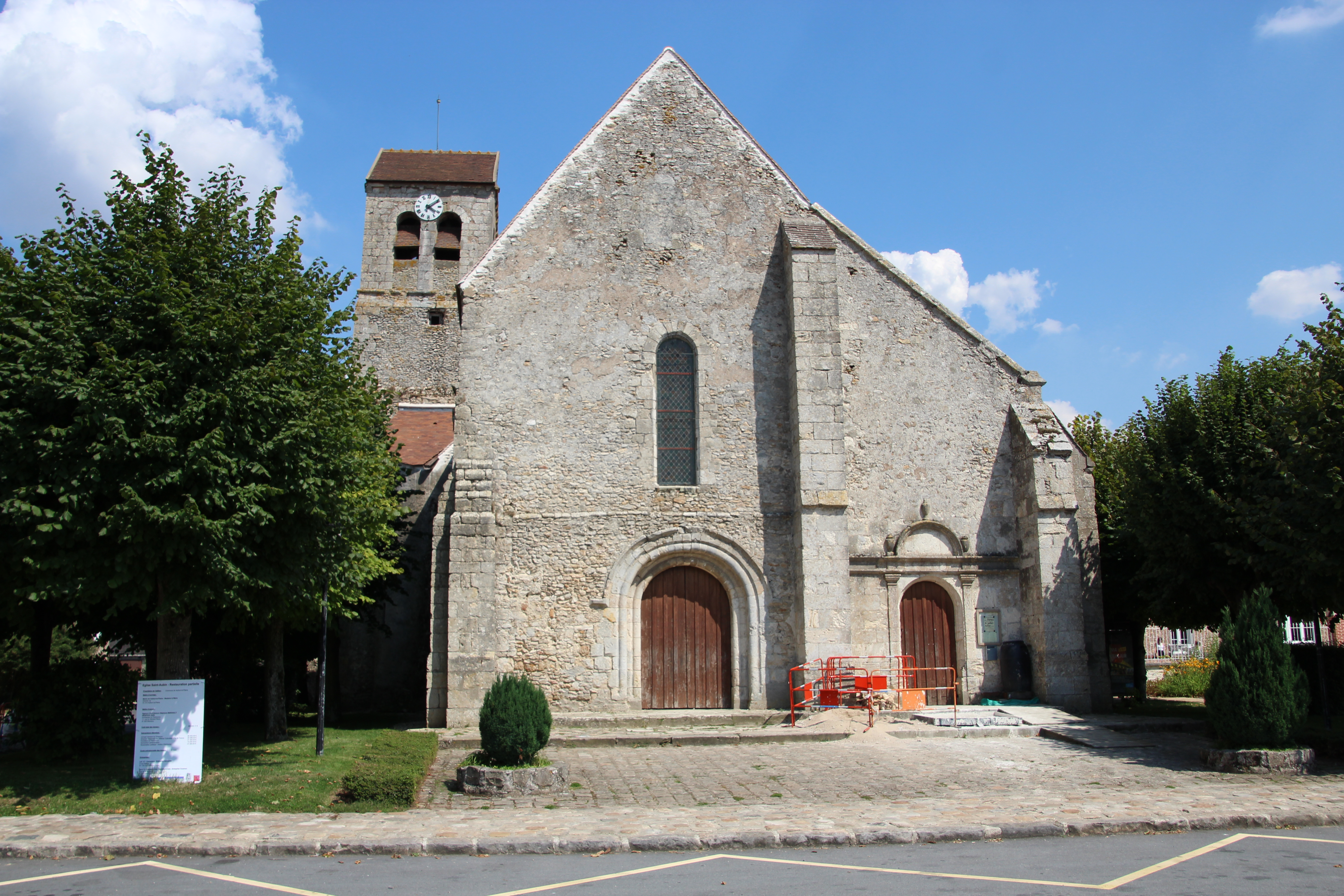 Saint-Aubin church in Authon-la-Plaine, France. Object location48° 27′ 02.84″ N, 1° 57′ 28.33″ E .